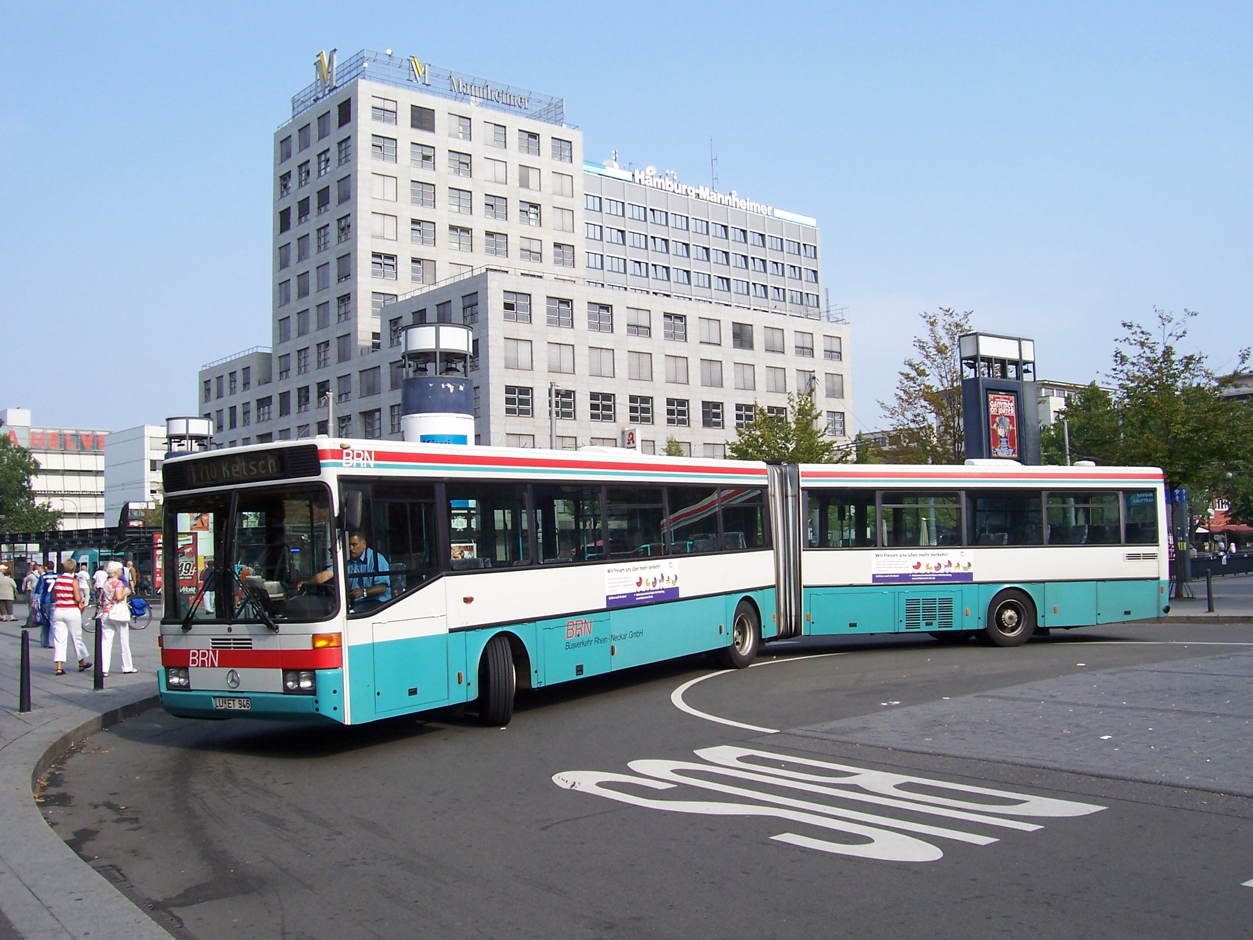 Mercedes-Benz O 405 G owned by Busverkehr Rhein-Neckar GmbH (BRN) in Mannheim, Germany My own photo from 03-sep-2005